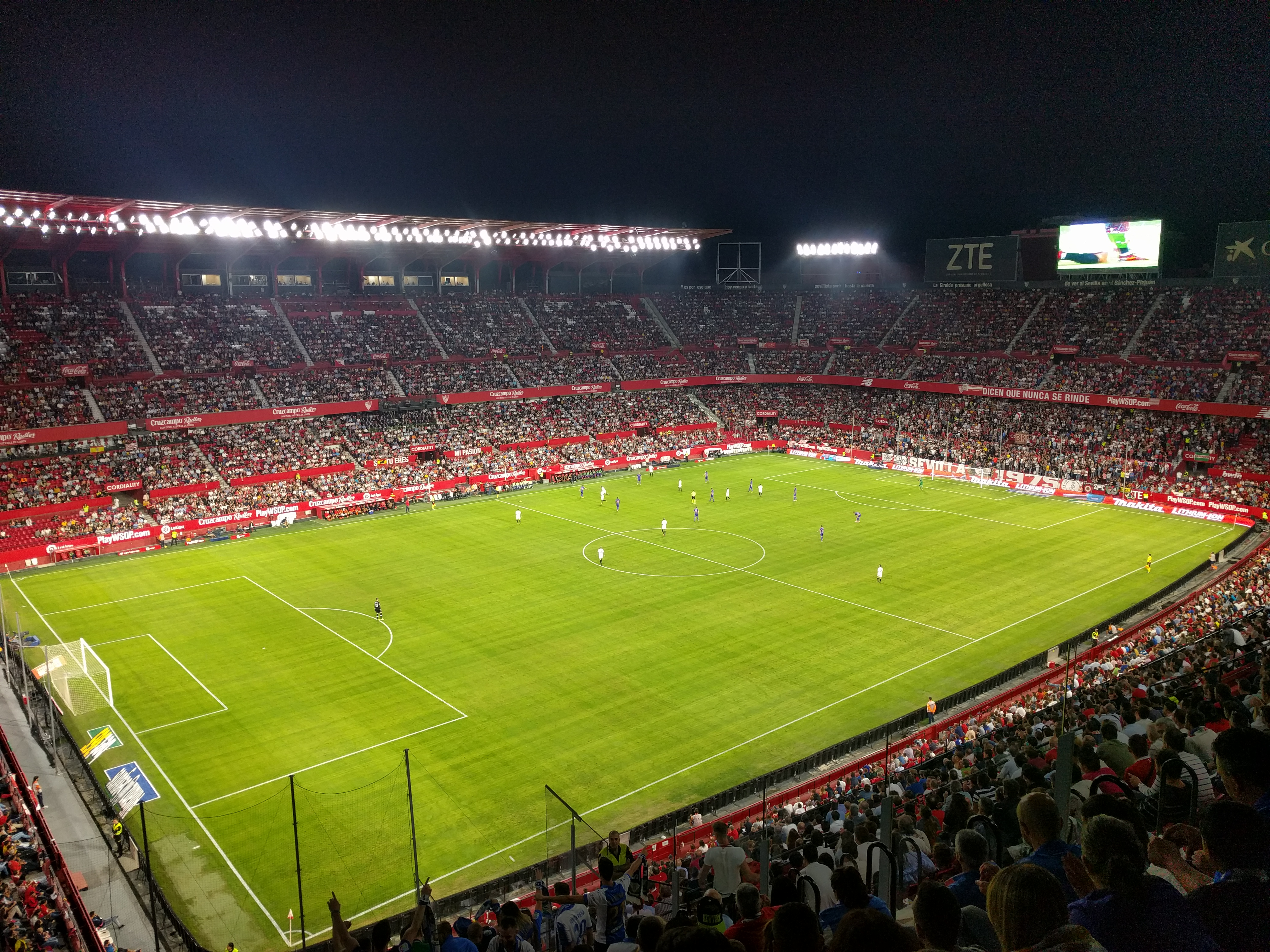 Match of Primera División, LaLiga 2017-18, Sevilla FC 2:1 CD Leganés, Ramón Sánchez Pizjuán